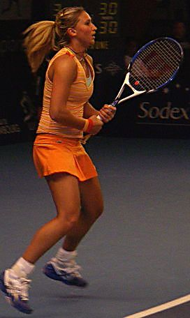 Tatiana Golovin at Fortis Championships Luxembourg, September 2007.